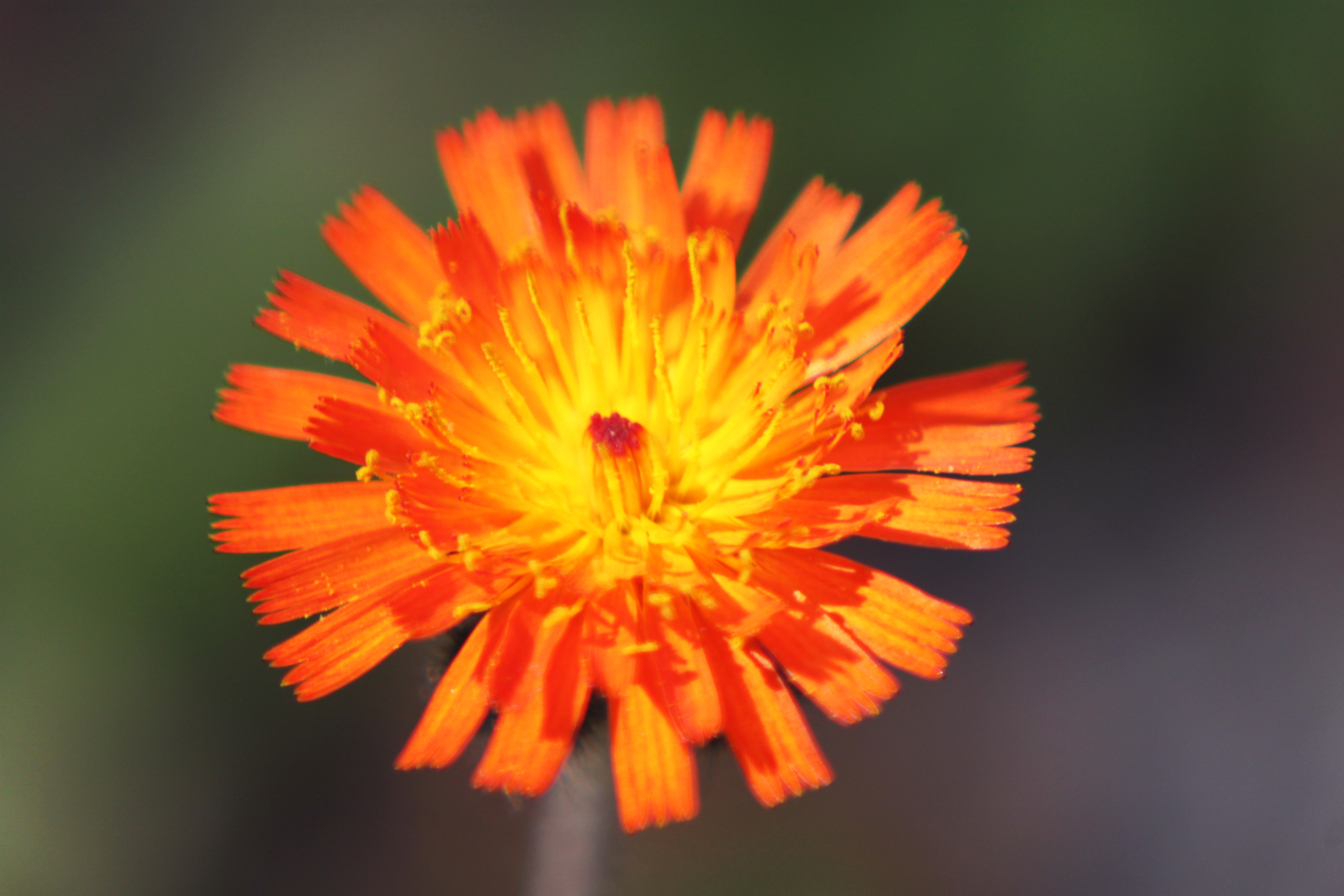 Flower of Hieracium aurantiaca